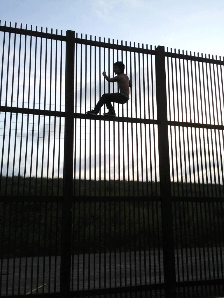 Border Wall, Brownsville, Texas, Immigrant, Crossing